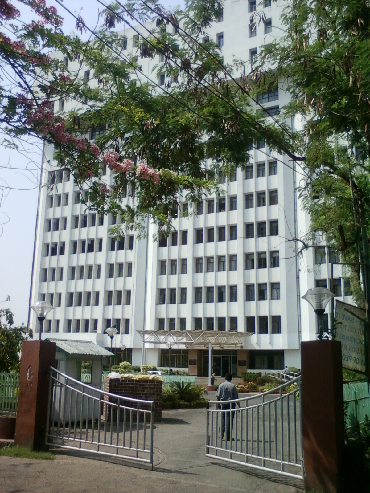 DVC - Kolkata Office Building - Front gates